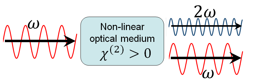 Schematic view of the SHG conversion of an exciting wave in a non-linear medium with a non-zero second-order non-linear susceptibility